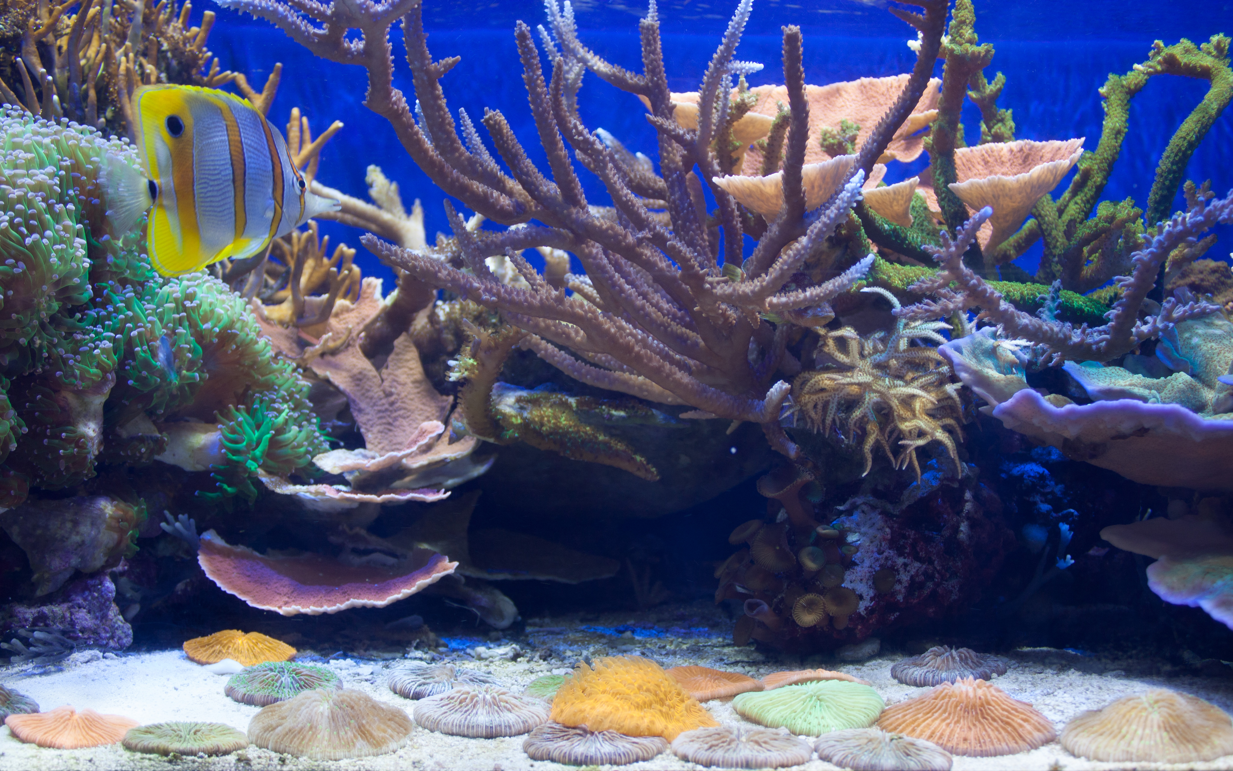 A small coral exhibit at the Steinhart Aquarium of the California Academy of Sciences in San Francisco, California. A copperband butterflyfish (Chelmon rostratus) is at left, and a cryptic yellowspotted scorpionfish (Sebastapistes cyanostigma) just right of center. Staghorn coral (Acropora spp.) dominates the middle of the scene, while frogspawn coral (Euphyllia spp.), green due to its symbiotic algae, is prominent at left, with poisonous fire coral (Millepora spp.) behind it. Noncolonial plate corals (Fungia spp.) are scattered across the bottom.